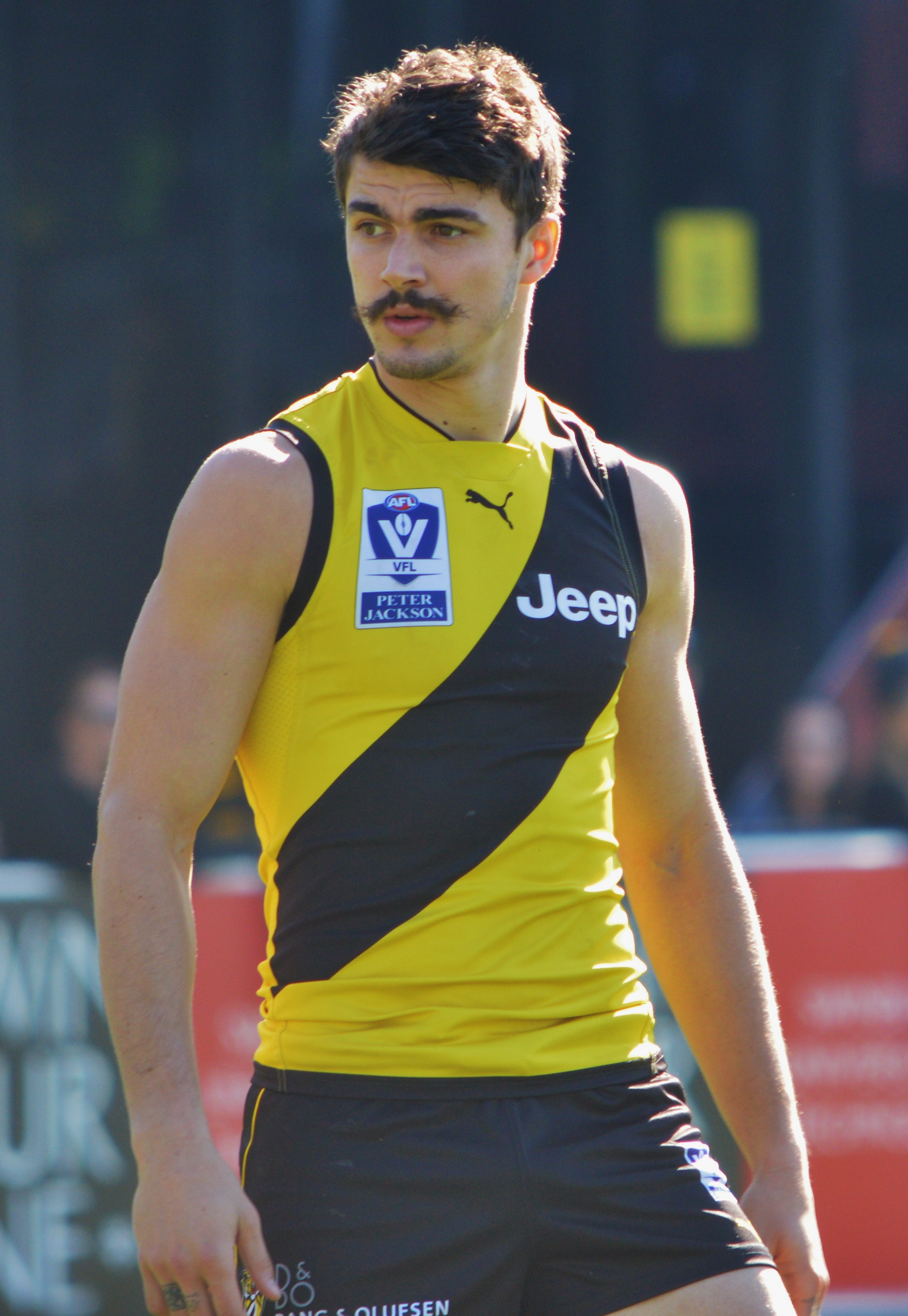 Oleg Markov during the round 8, 2018 VFL match between Richmond and Coburg at Punt Road Oval.